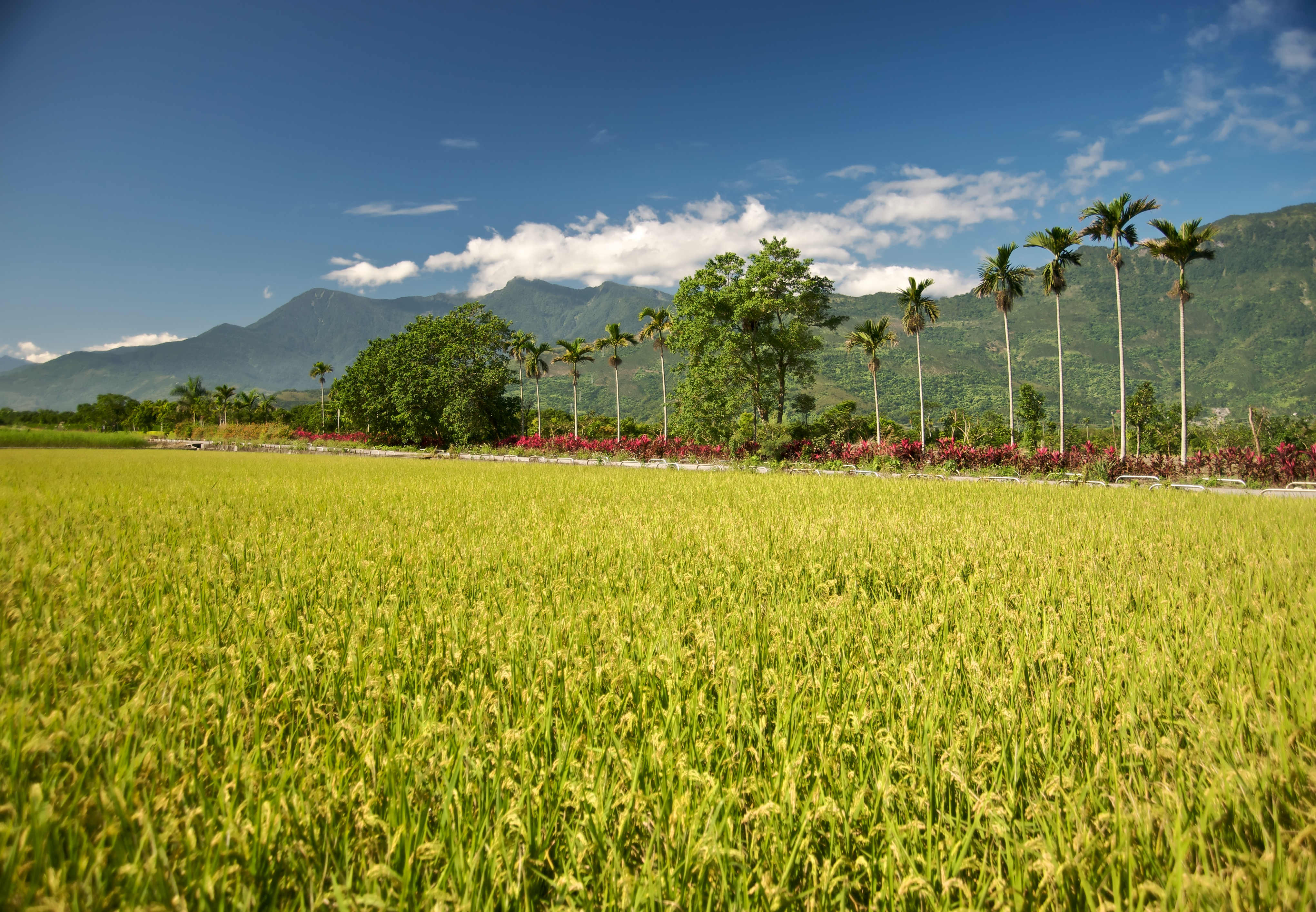 A farm road in Hualien County, Taiwan, with the Coastal Mountain Range in the background.